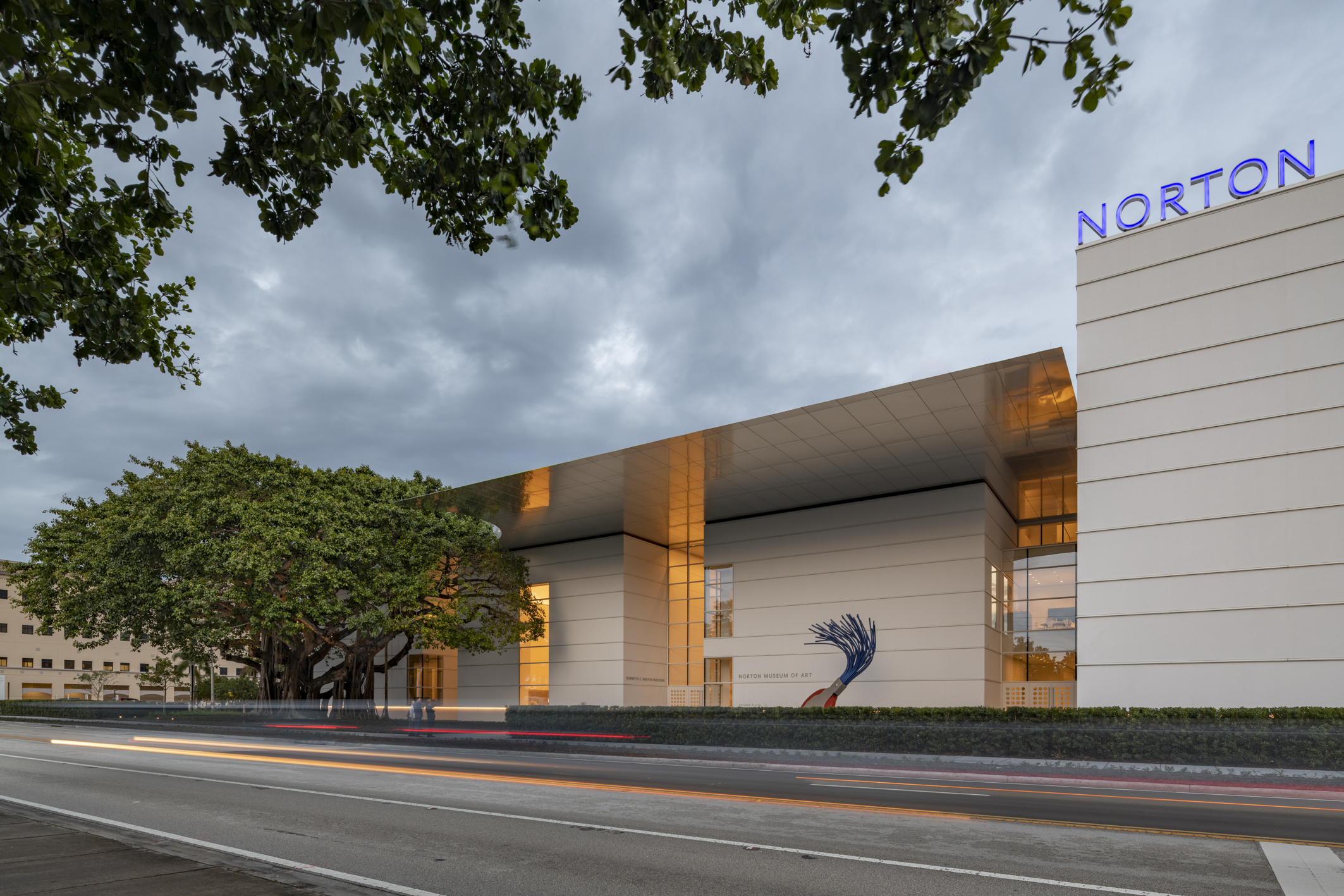 Front of redesigned Norton Museum of Art in February 2019, designed by Foster & Partners. Photo taken by Nigel Young.